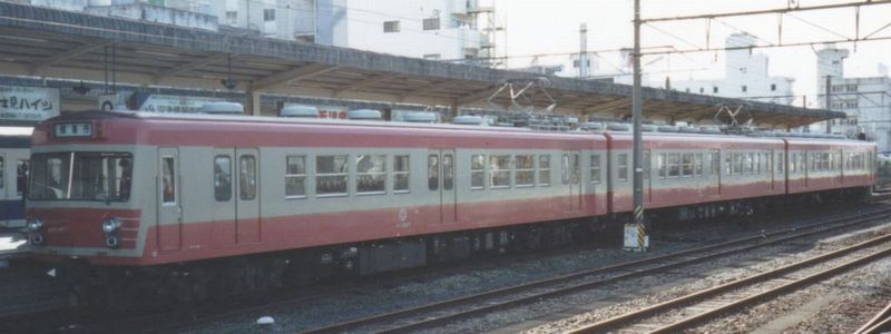 Izuhakone type 1000(Formation of 1007) at Mishima Sta.